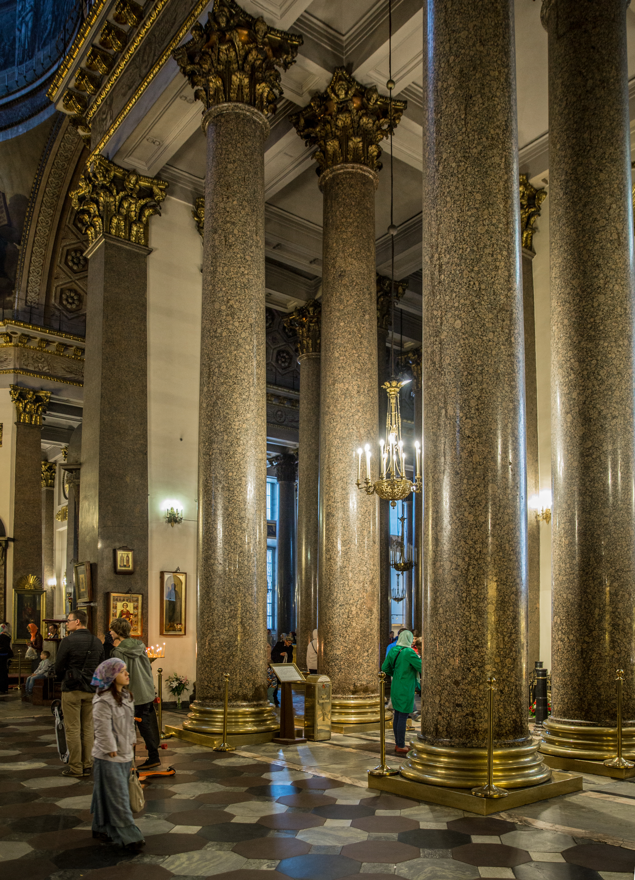 Kazan Cathedral, Interior View